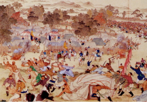 Portrays the Dzungar genocide